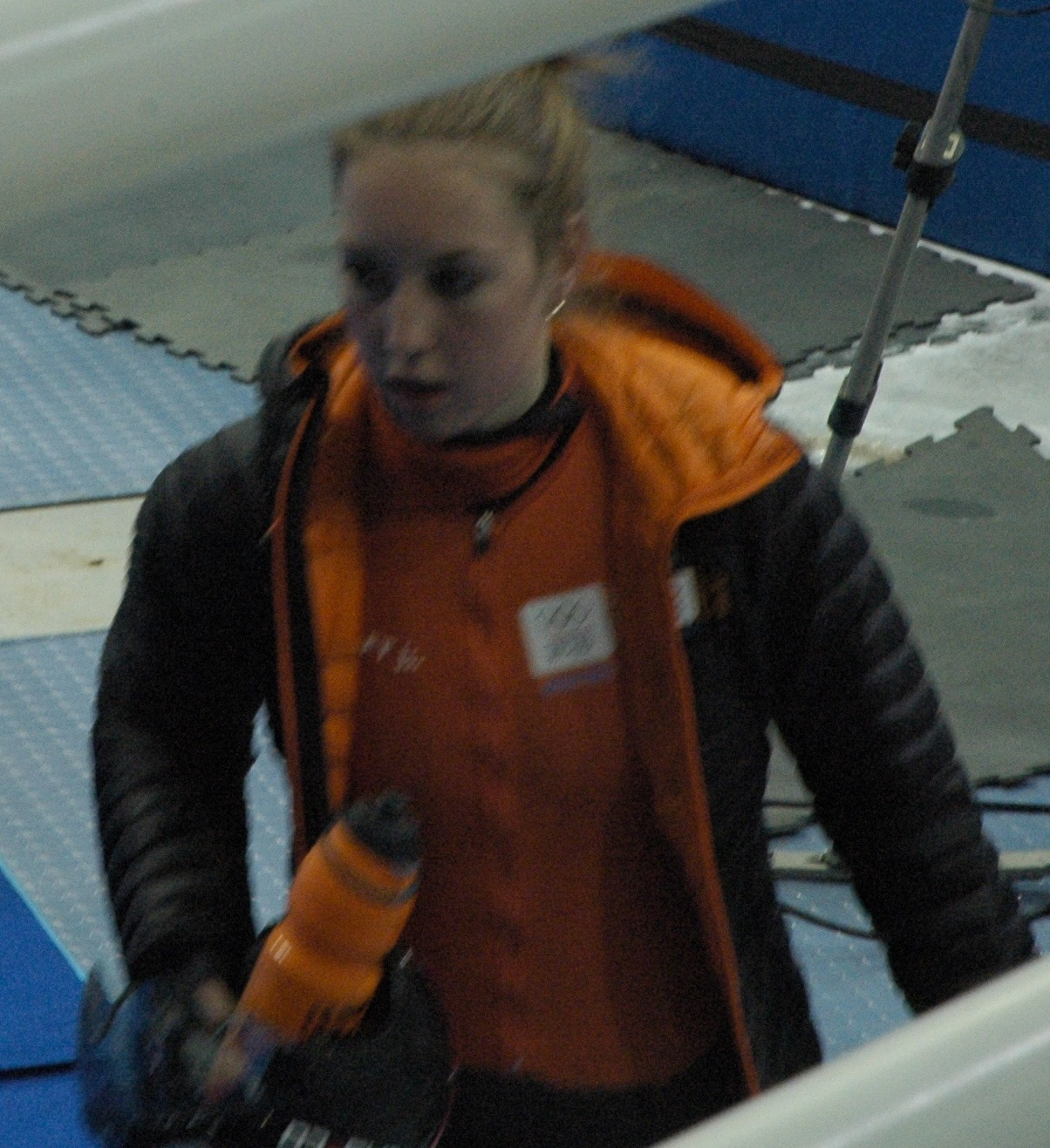 Short track speed skating training 17 February, 2014 Winter Olympics: Lara van Ruijven